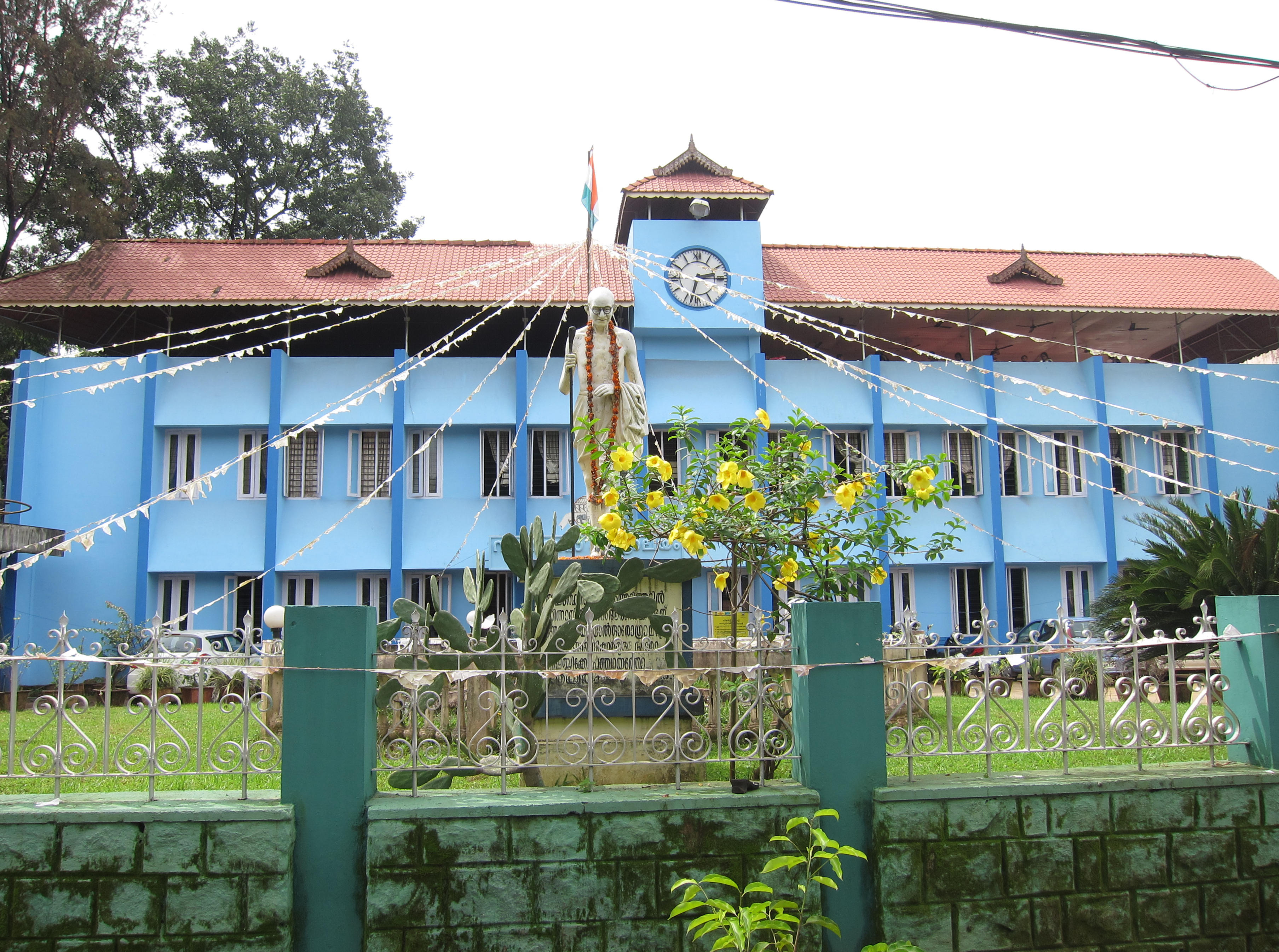 Chalakudi Muncipality-ചാലക്കുടി മുൻസിപ്പാലിറ്റി Thrissur District